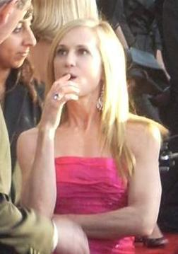 Actress Holly Hunter, nominated for "Saving Grace" at the 15th Screen Actors Guild Awards